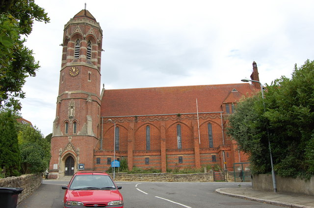 St Johns Church, St Leonards